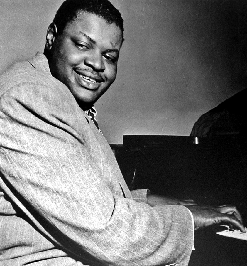 Publicity photo of Oscar Peterson in "Jazz at the Philharmonic."